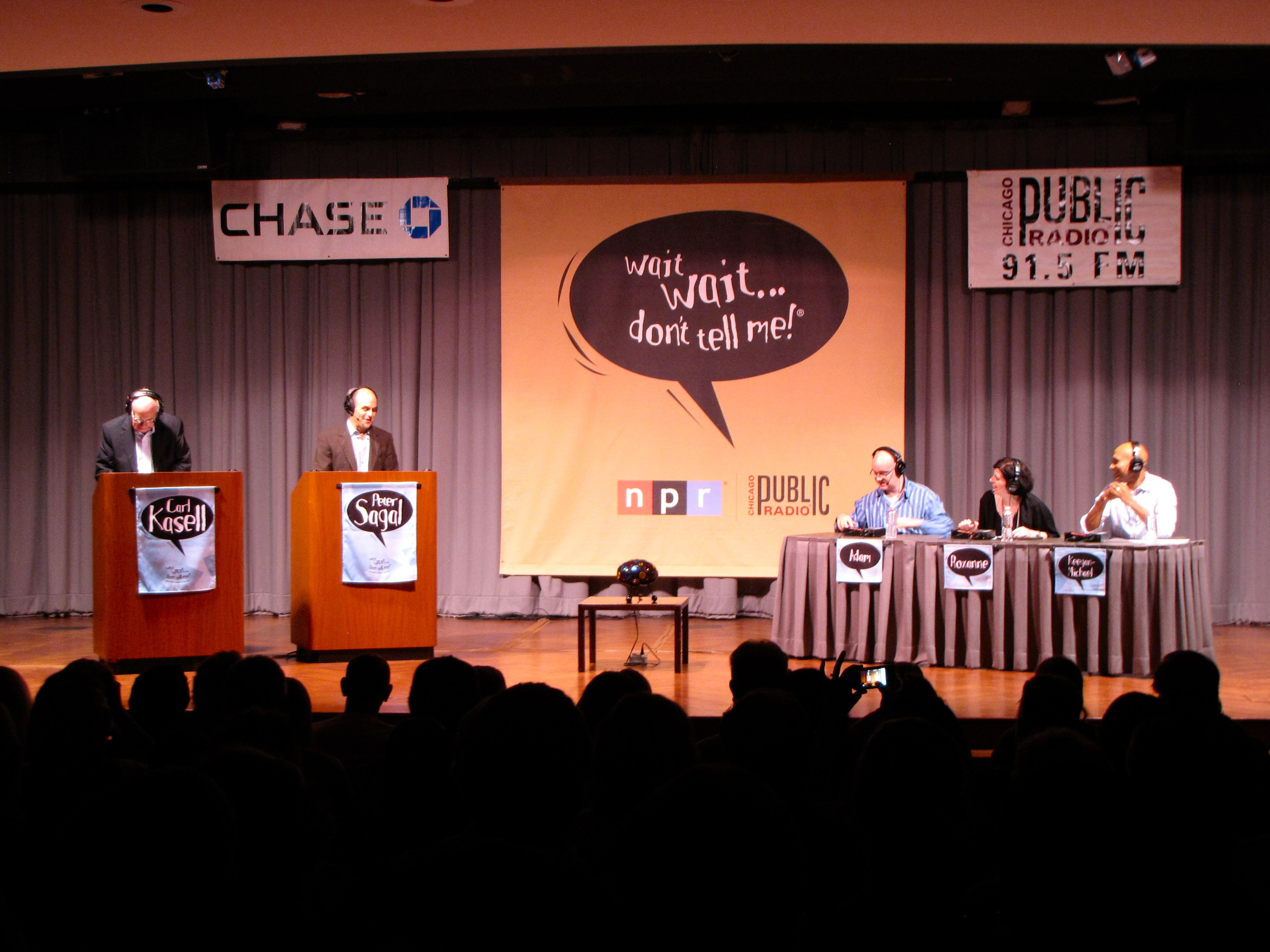 Taping of Wait Wait... Don't Tell Me! on Thursday, July 22, 2010. This episode would be broadcast on Saturday, July 24, 2010.